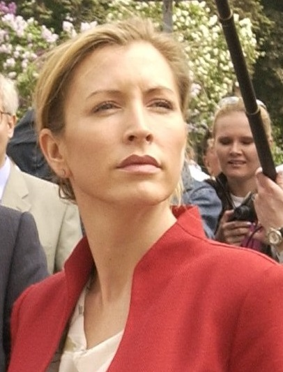 MOSCOW, KREMLIN. Russian President Vladimir Putin, singer and composer Paul McCartney and his wife Heather Mills take a walk in the Kremlin.